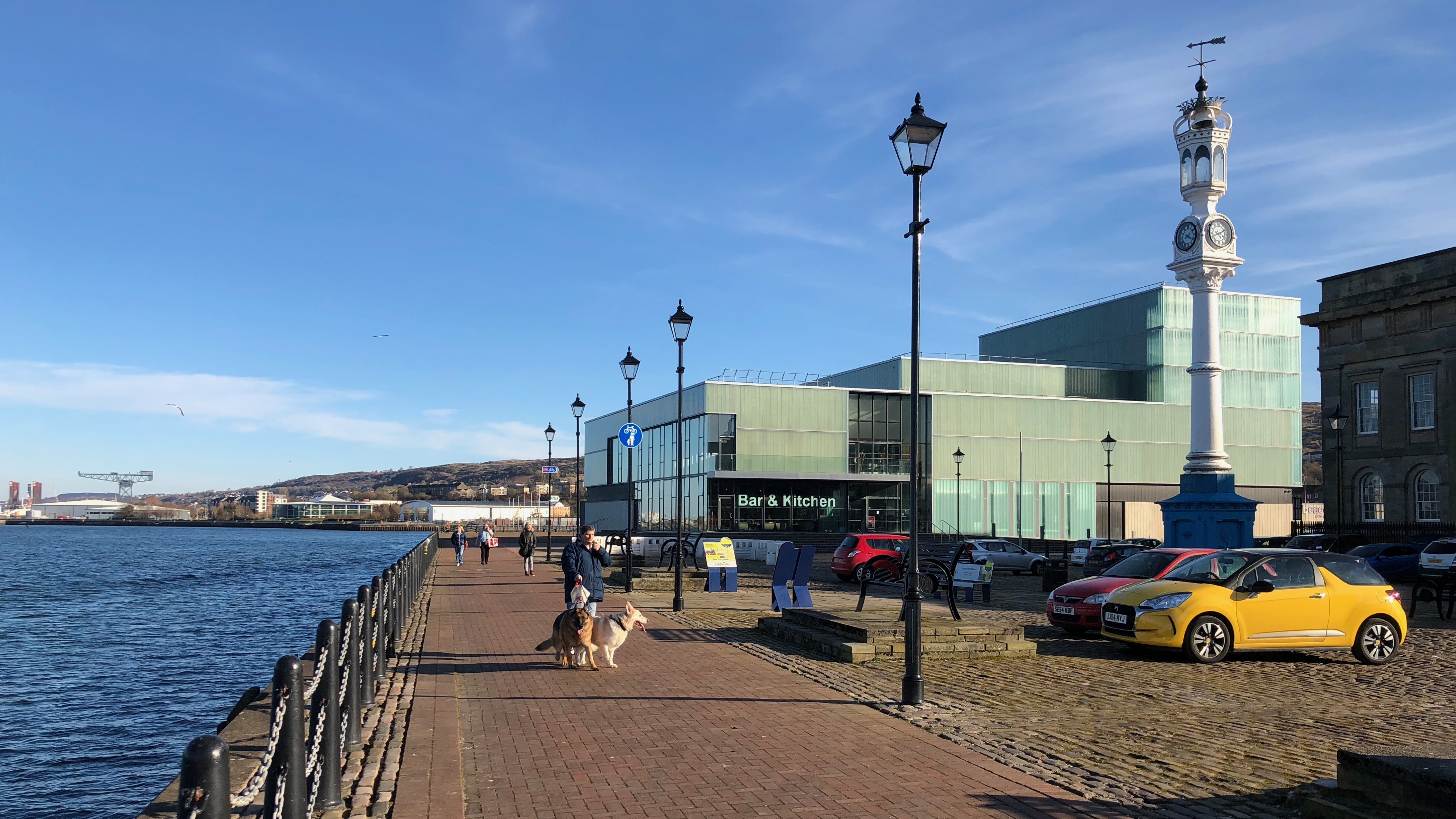 The Beacon Arts Centre at Customhouse Quay on the waterfront of Greenock in Scotland, from the River Clyde quayside, behind "The Beacon" cast-iron clock tower and lantern which was made in 1868 by Rankin & Blackmore Ltd to a design by Greenock artist William Clark.